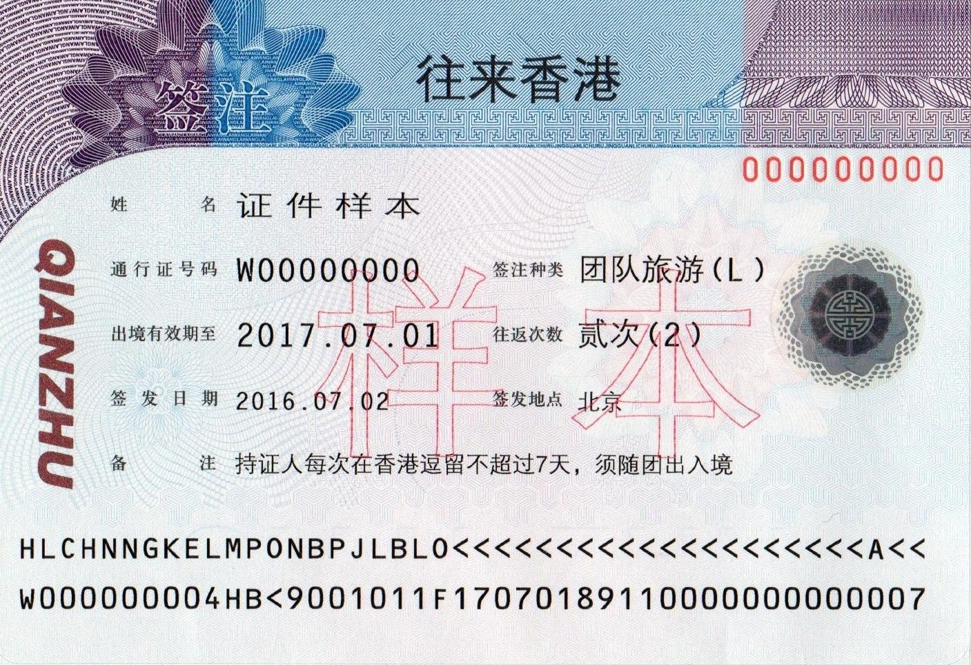 A sample of sticker-style endorsement of Two-way Permit for Hong Kong visit, issued in 2016. 中文（中国大陆）: 2016年签发的港澳通行证往来香港贴纸式签注样本